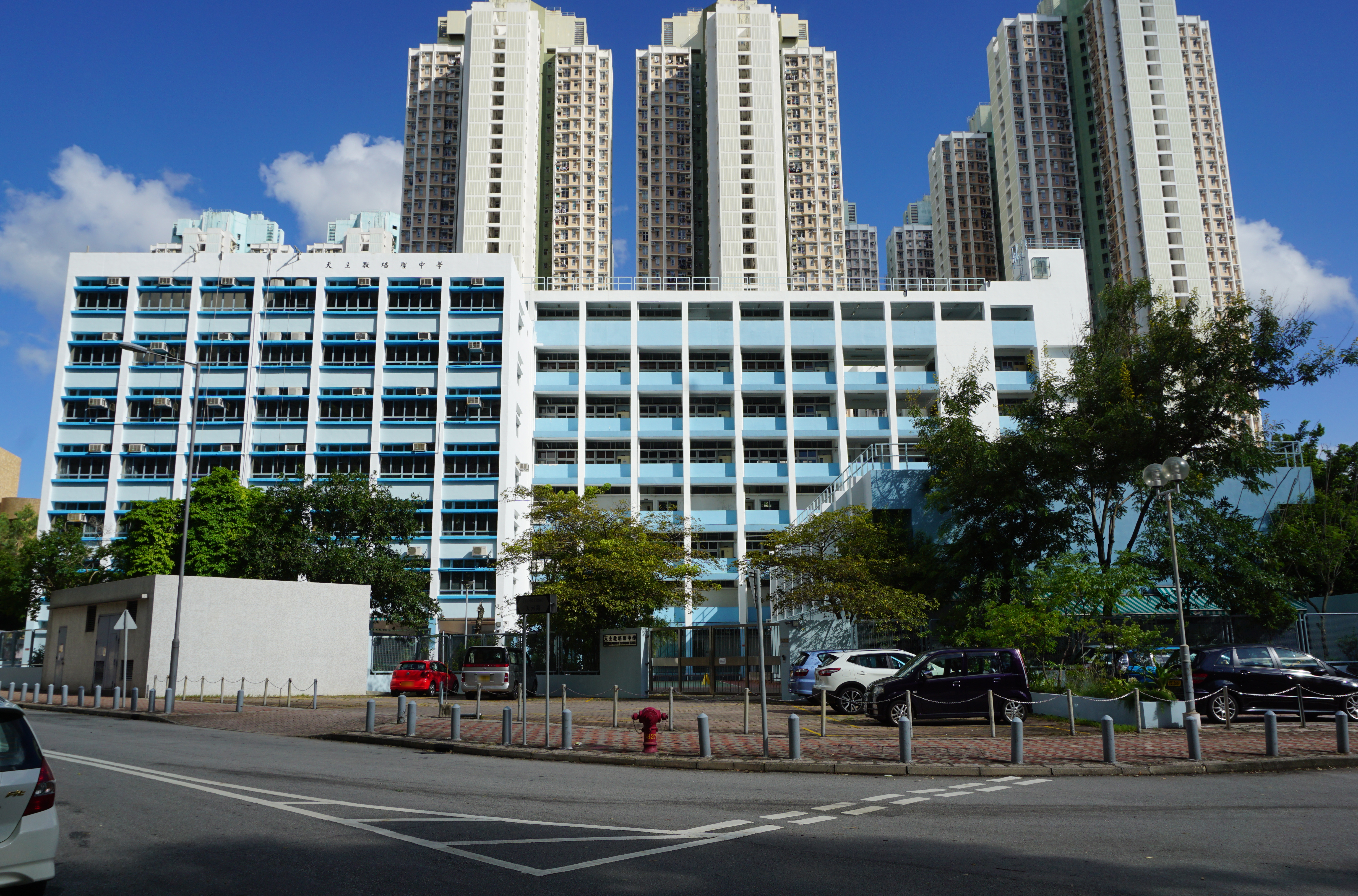 Pui Shing Catholic Secondary School in Tin Shui Wai, Hong Kong.